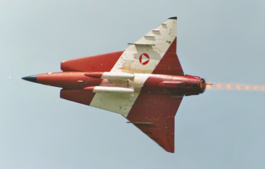 Saab Draken